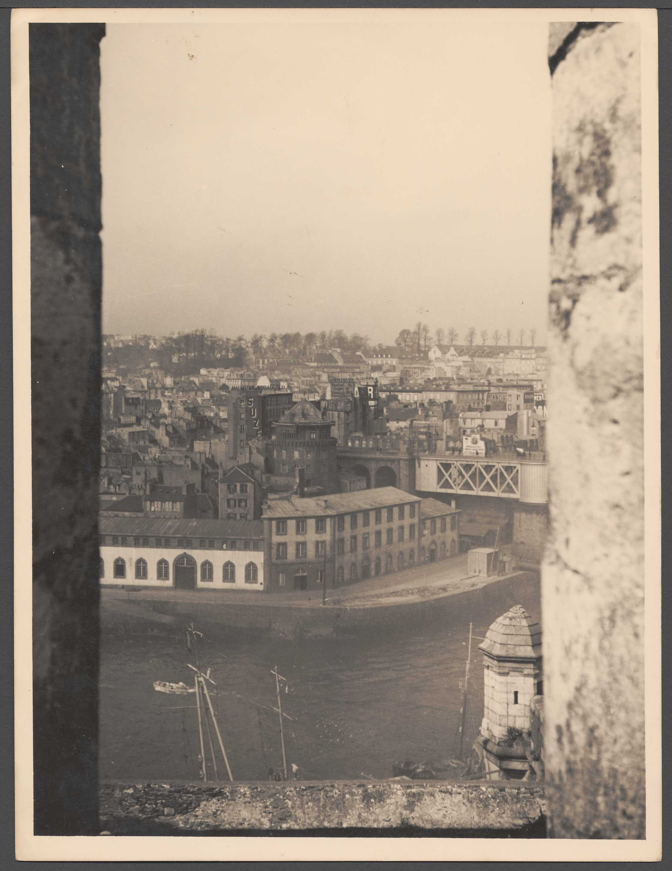 General view of Recouvrance, Brest, France, from the Castle of Brest.